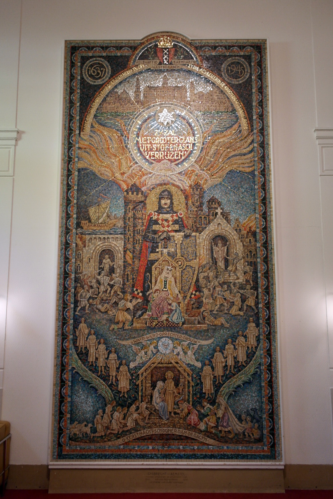 Amsterdam, the Netherlands. Mosaic in Gijsbrechtsbordes, the landing in the north wing of Stadsschouwburg, Amsterdam's municipal theatre. The mosaic depicts a scene from Gijsbrecht van Aemstel, a play by Joost van den Vondel. The portraits and busts are of actors that performed roles in this play. The mosaic is of the hands of Antoon Molkenboer.